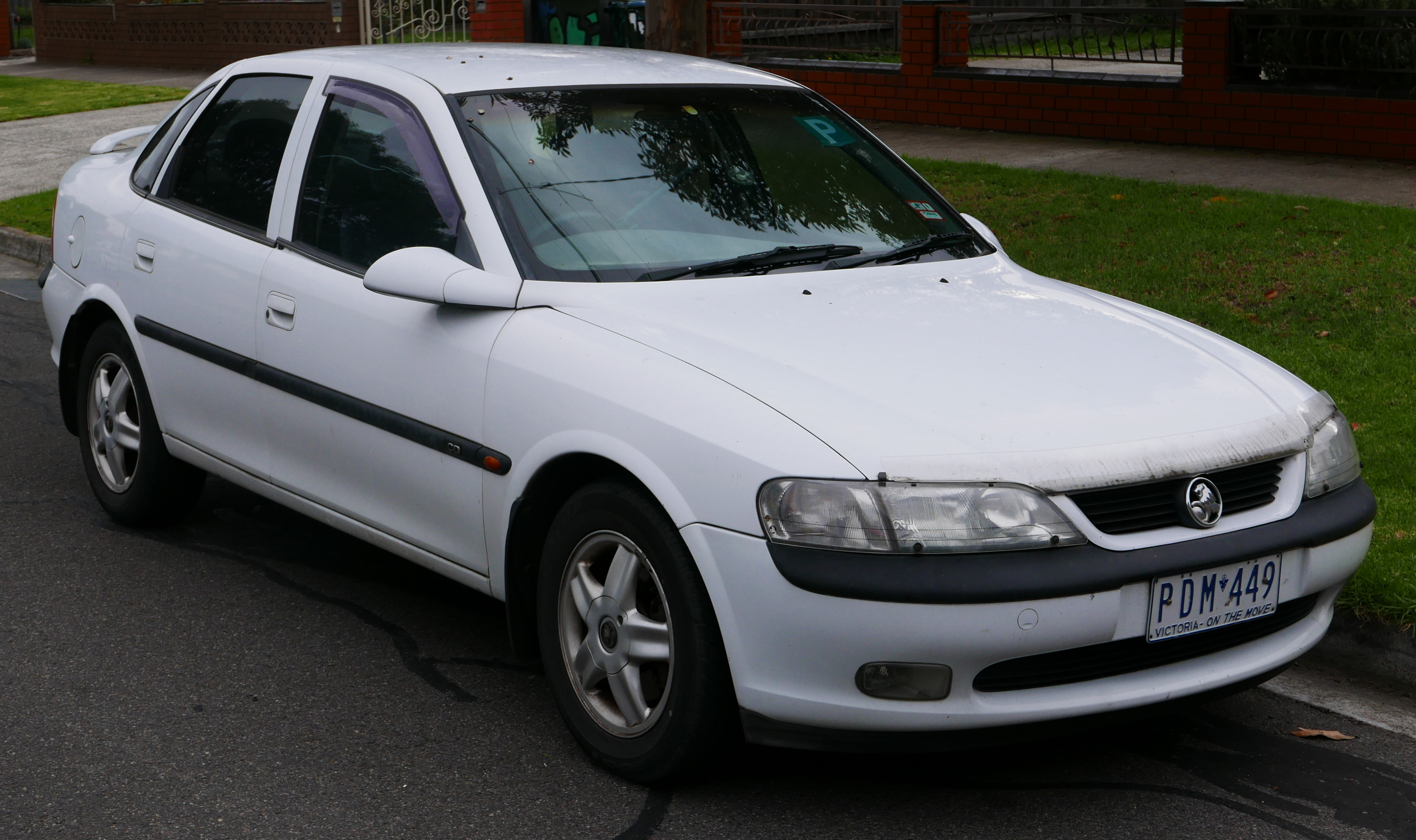 1998 Holden Vectra (JR) CD sedan. Photographed in Thornbury, Victoria, Australia. Vehicle registration enquiry results Jurisdiction Victoria Registration PDM449 Chassis code W0L0JBF19W5179378 Engine code C20SEL14002151 Compliance date 1998-06 Year of manufacture 1998